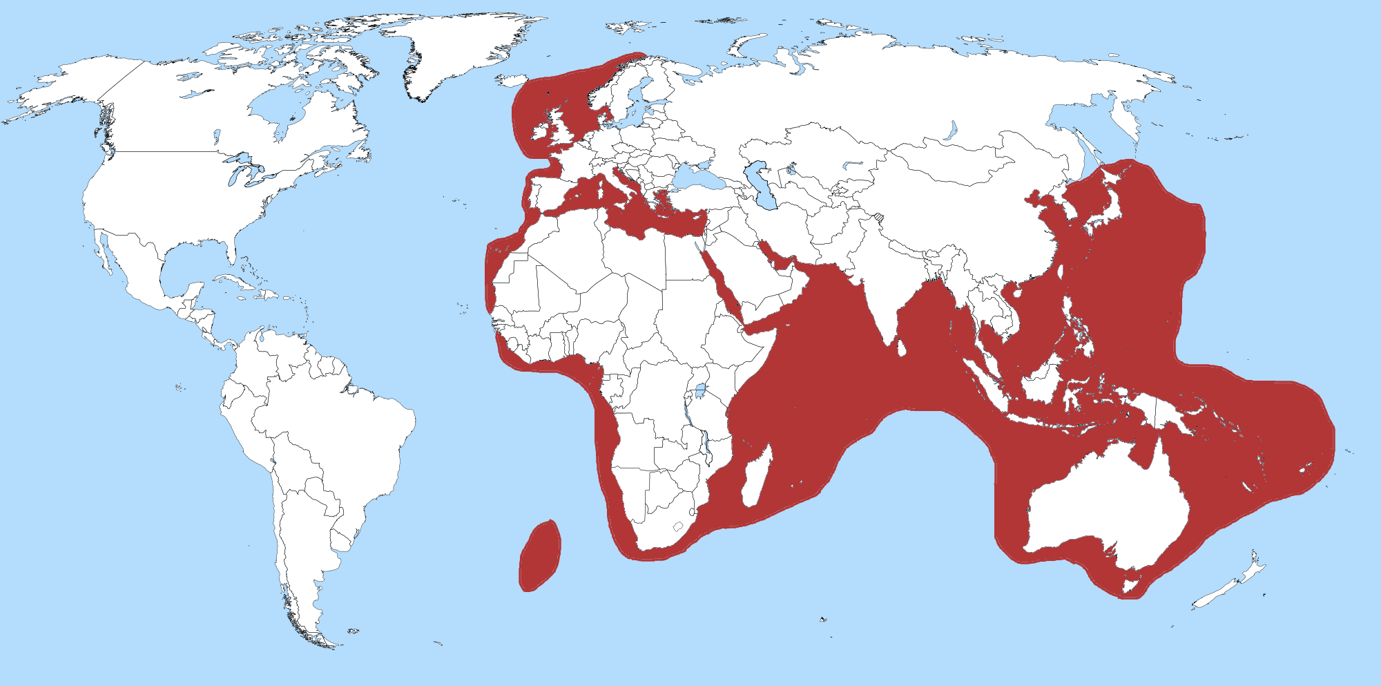 The Distribution of the John Dory.